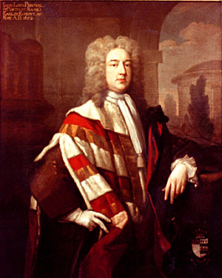 Portrait of John Perceval, 1st Earl of Egmont (1683-1748)